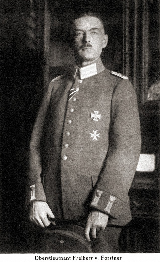 prussain lieutenant colonel Ernst Freiher von Forster